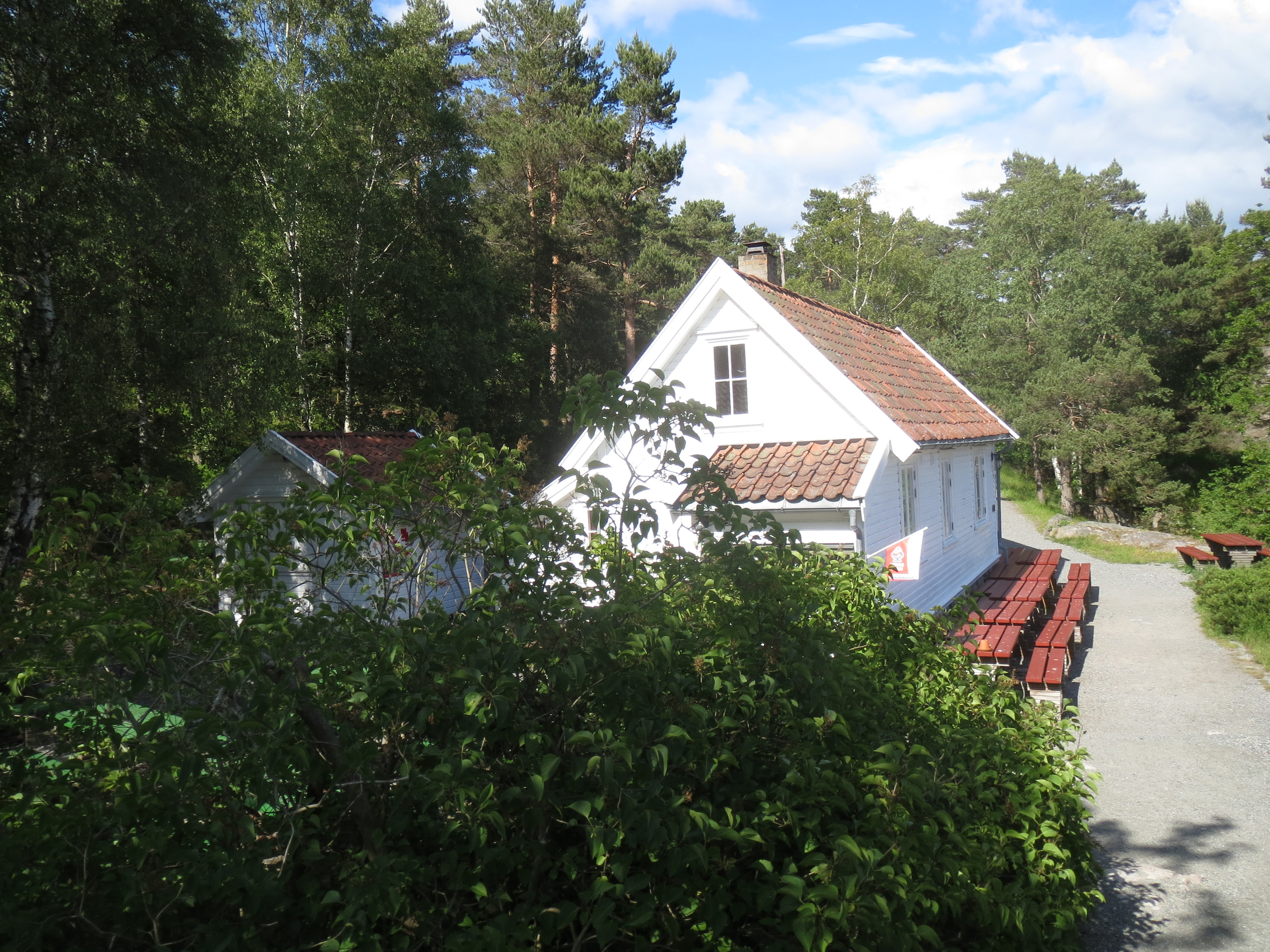 The watchmans residence, Søndre batteri, Odderøya. The location of the Sunday Cafè